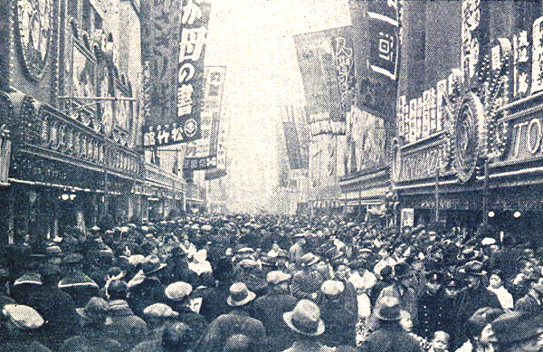 The Asakusa Rokku theater district